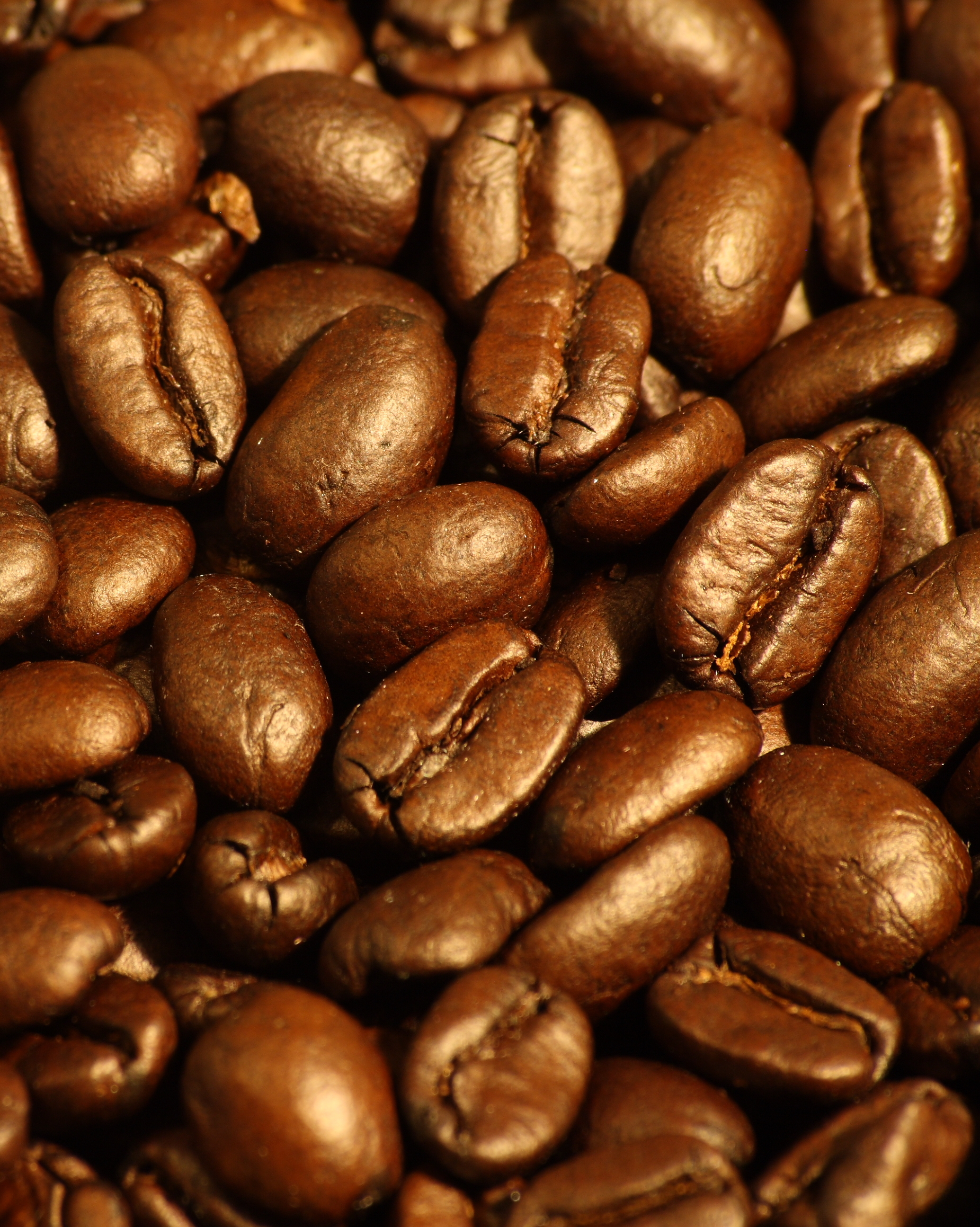 A pile of coffee beans: Trader Joe's Organic Five Country Espresso Blend, a dark roast made of coffee from El Salvador, Guatemala, Mexico, Peru, and Sumatra.